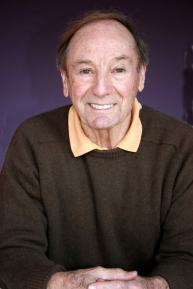 Karl Jaeger - image